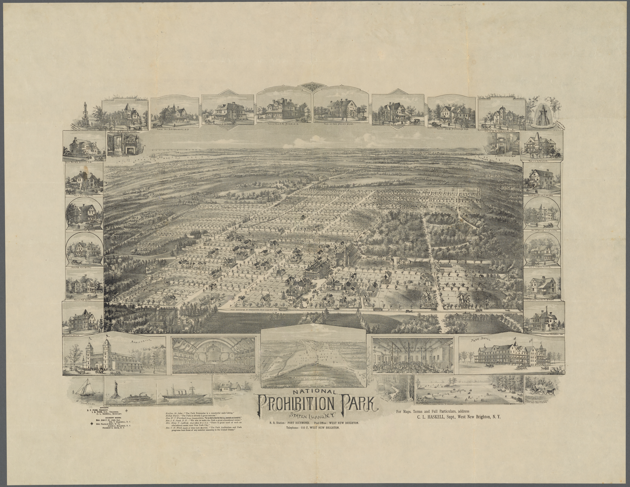 Content: Aerial view to horizon. Content: Shows developer's building lots and their numbers. Content: Existing buildings, residences, and relief shown pictorially. Content: Oriented with north toward the upper right. Content: Scale not given (W 74°07ʹ55ʺ/N 40°37ʹ16ʺ) Content: Includes notes, location map (inset aerial view), directory of company officers' names, and ill. of principal buildings and other sights of interest. Statement of responsibility: "For maps, terms and full particulars, address C.L. Haskell, supt., West New Brighton, N.Y." Content: Accompanied by 5 letters from 1928-1930, with attachments, relating to the status of a particular lot in Prohibition Park (10 sheets ; 28 x 22 cm and 15 x 12 cm). Acquisition: Purchase; Boston Rare Maps; 2013/07/31; yvxq Funding: Mapping the Nation (NEH grant, 2015-2018)